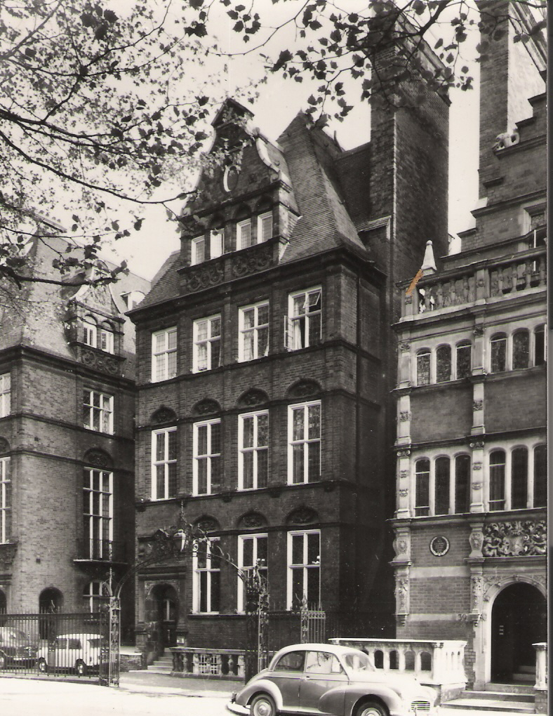 Old private photo with no copyright. The former home of the London Society of Genealogists in Harrington Gardens, near Gloucester Road, SW7.